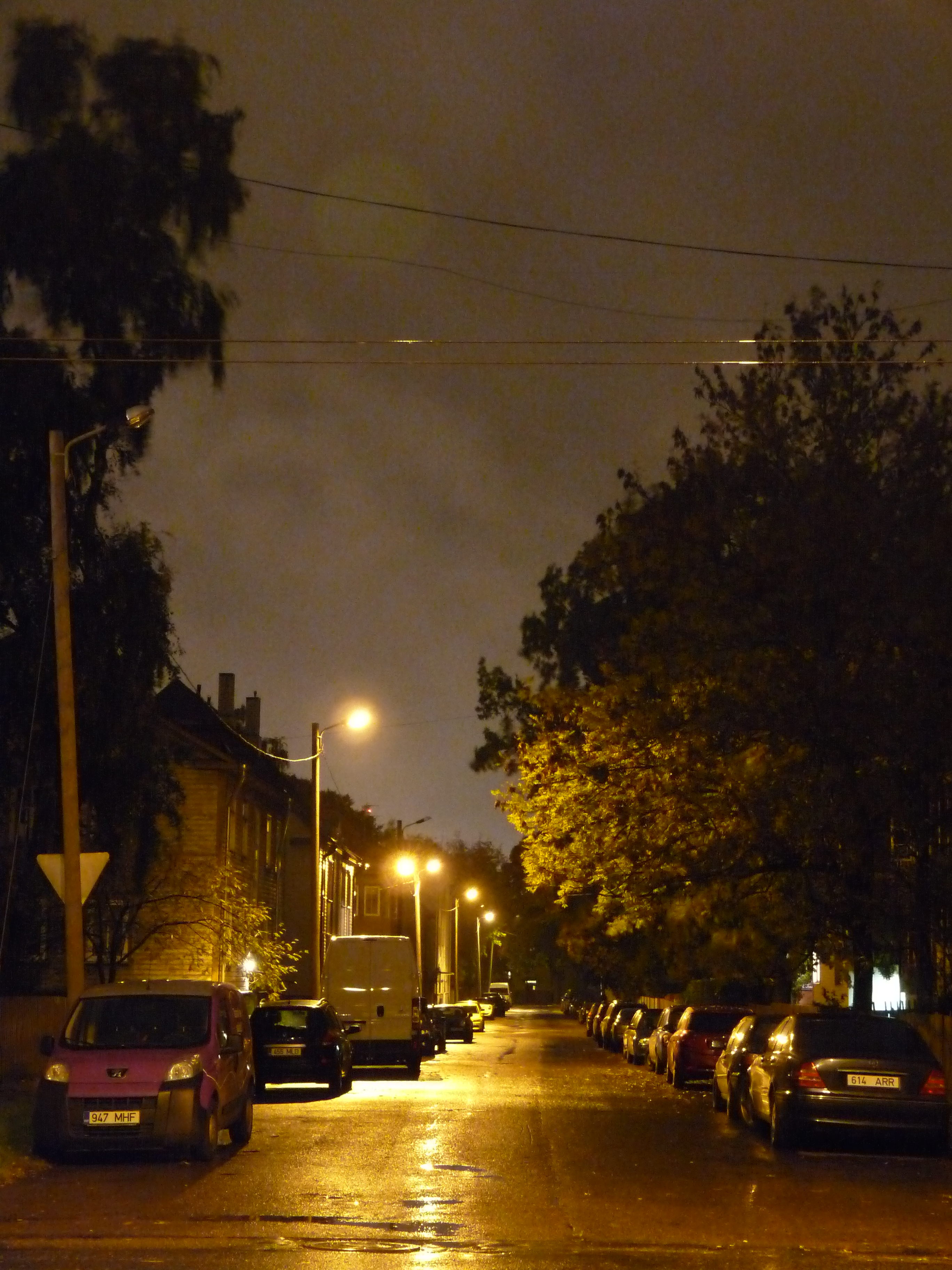 Kasvu street in Tallinn, Estonia